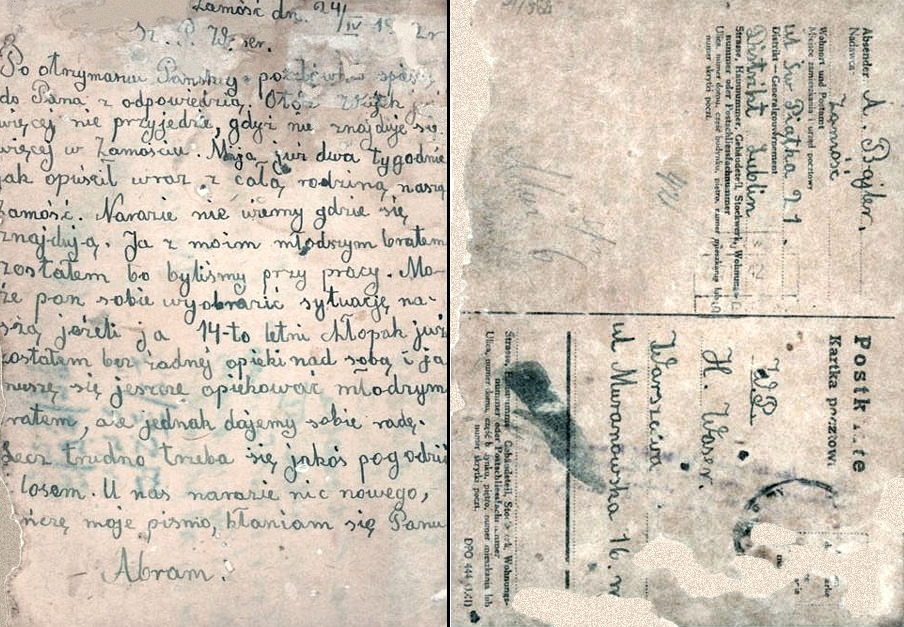 Postcard info about the deportation of Szlama Ber Winer to extermination camp with family, written in Polish by his nephew Abram Bajler living in Zamość during the Holocaust in Poland, dated April 24, 1942.